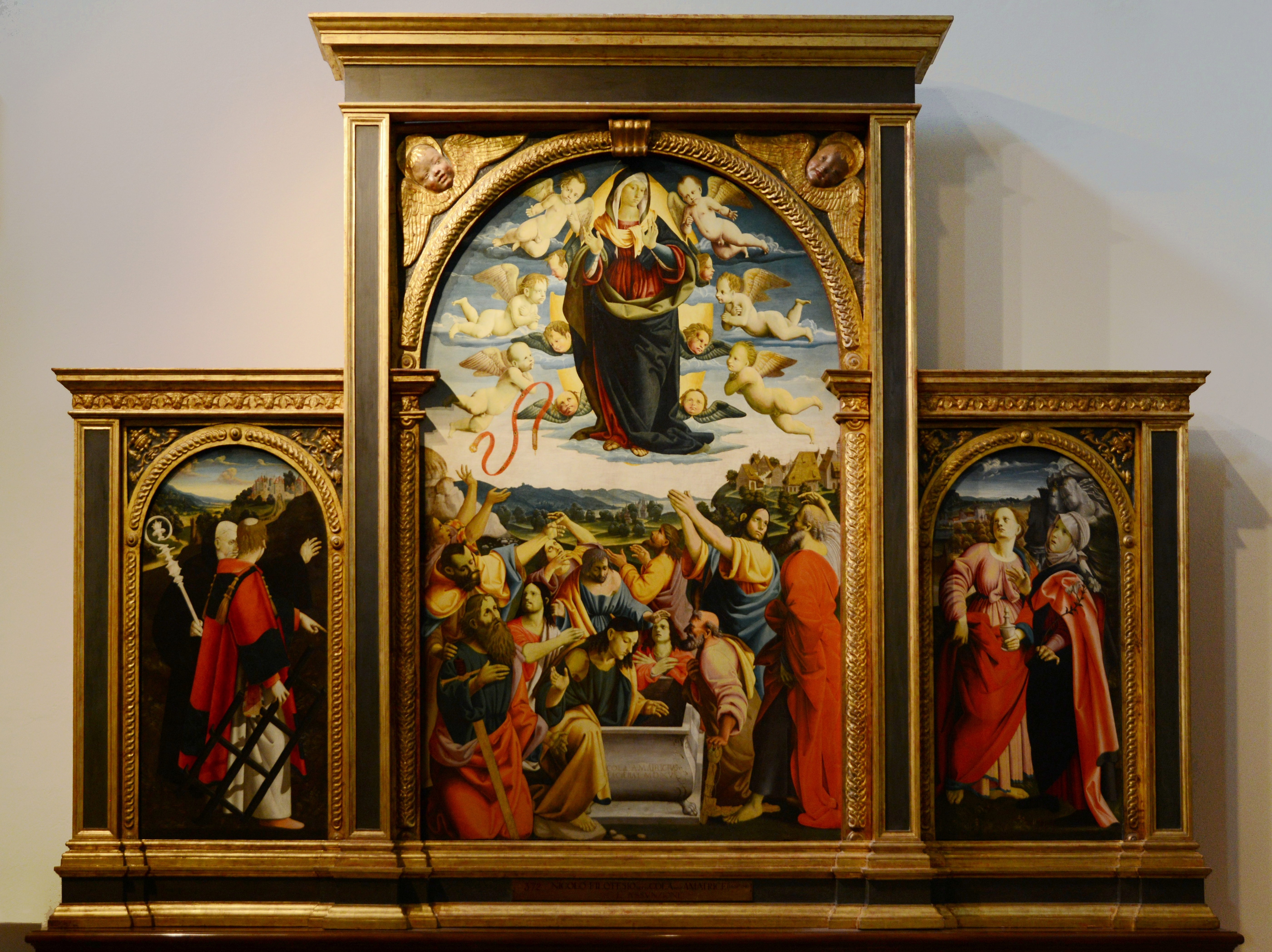 Assumption of the Virgin by Nicola Filotesio. Pinacoteca, Vatican Museums